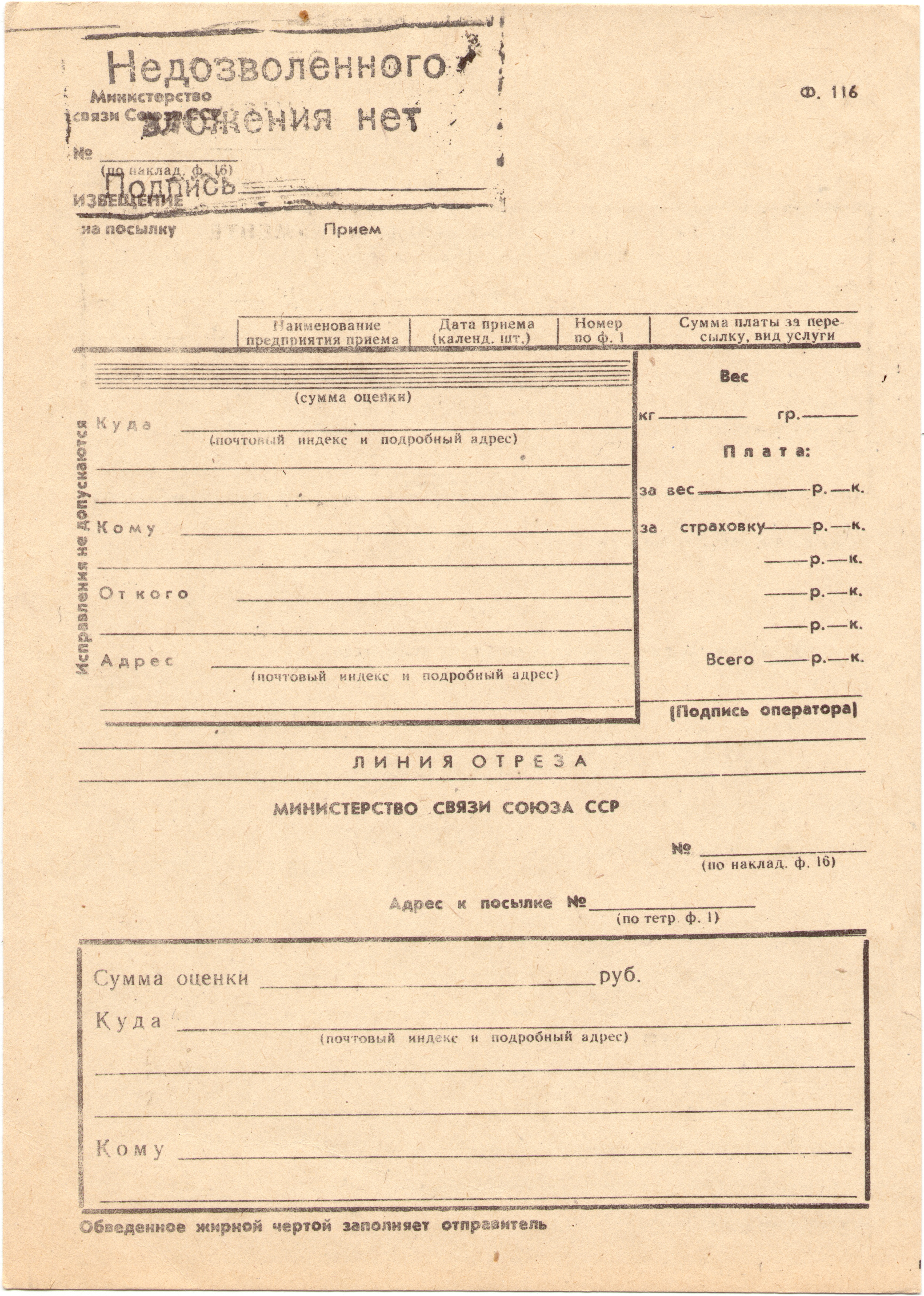 USSR Package Mailing form, Form 116, front side, 1990s.